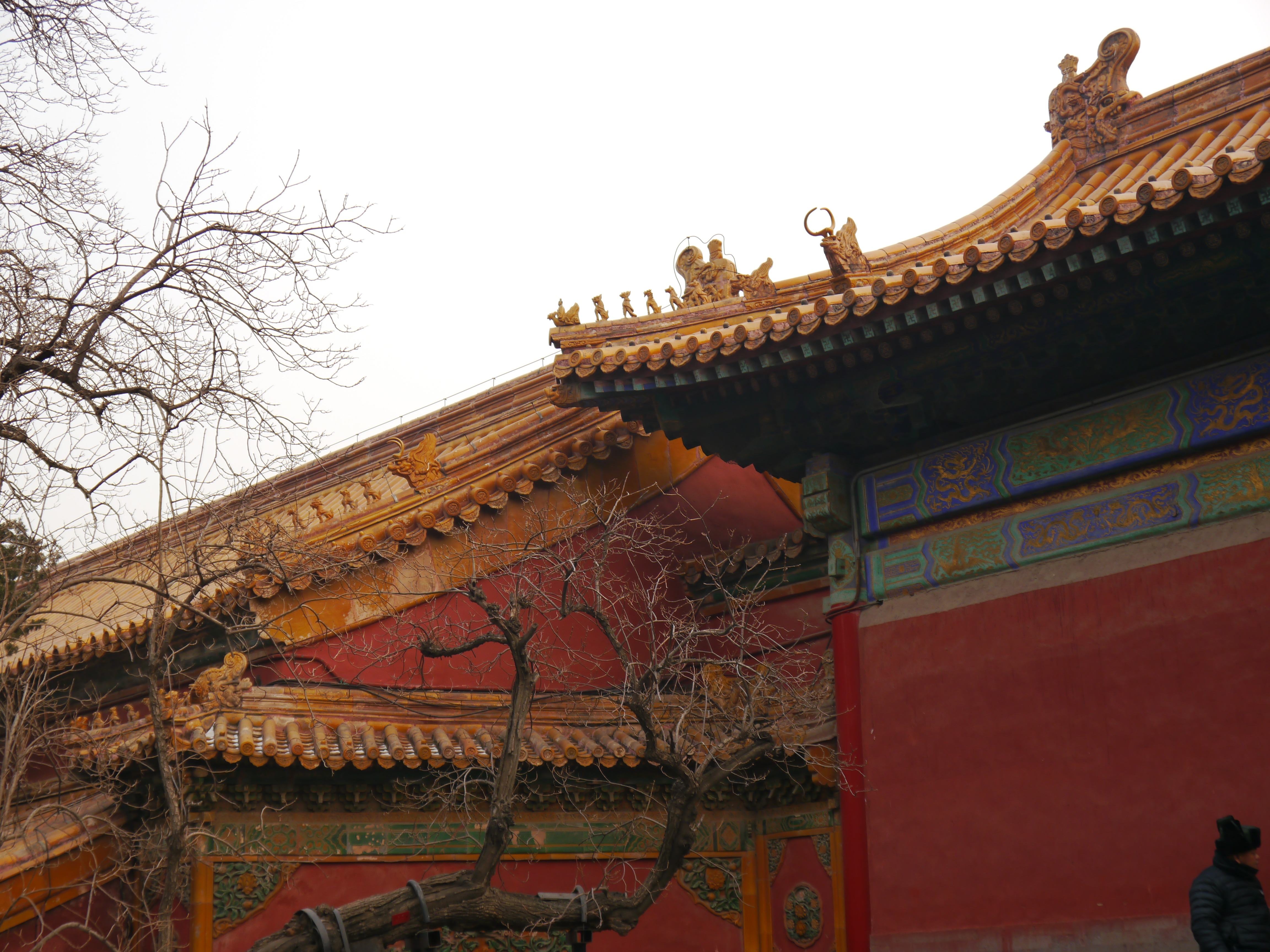 China, Beijing, Forbidden City. 坤宁门